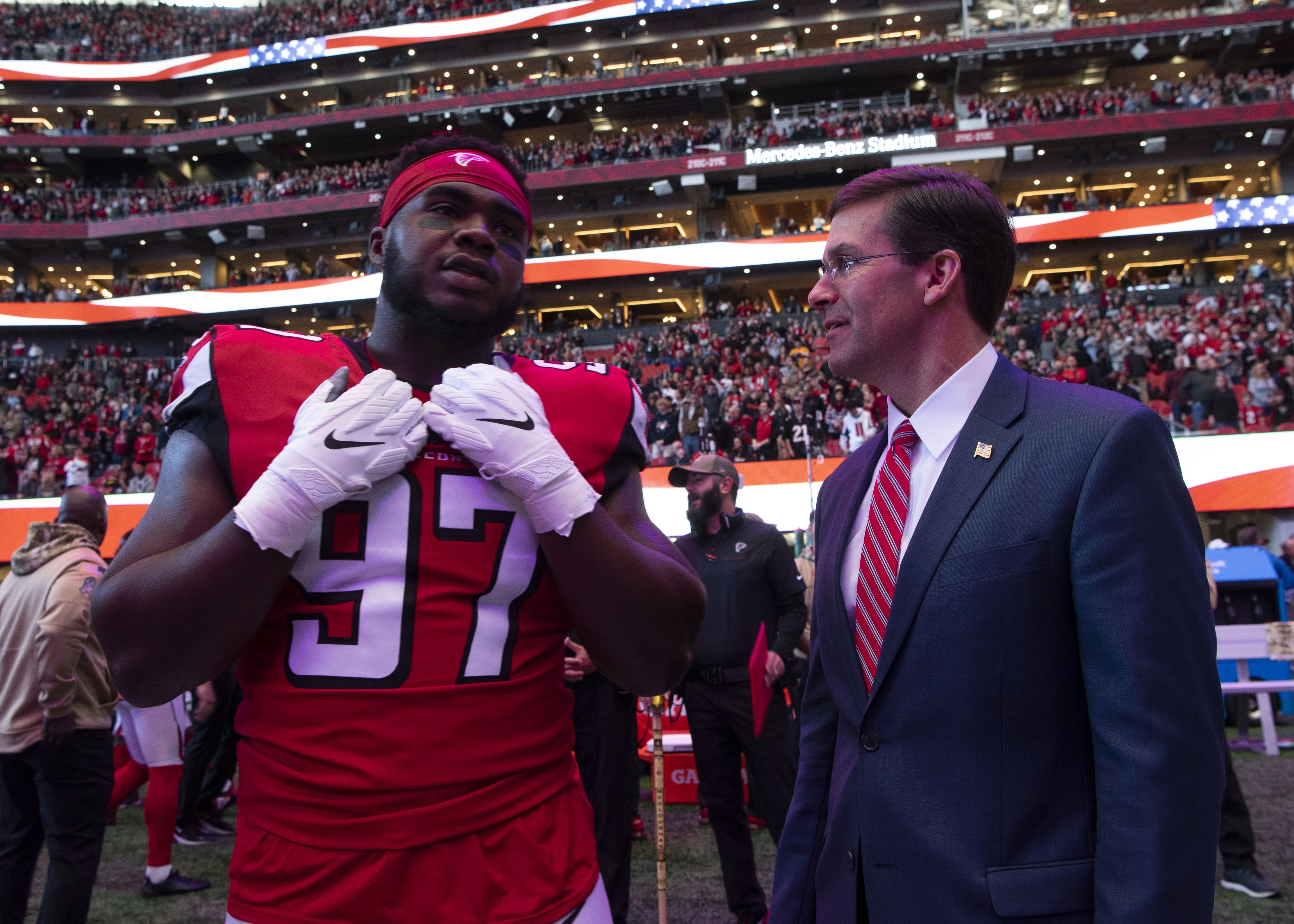 Defense Secretary Mark T. Esper greets Atlanta Falcon player Grady Jarrett, at the Atlanta Falcons vs. Tampa Bay Buccaneers Salute to Service game, Atlanta, Georgia, Nov. 24, 2019.